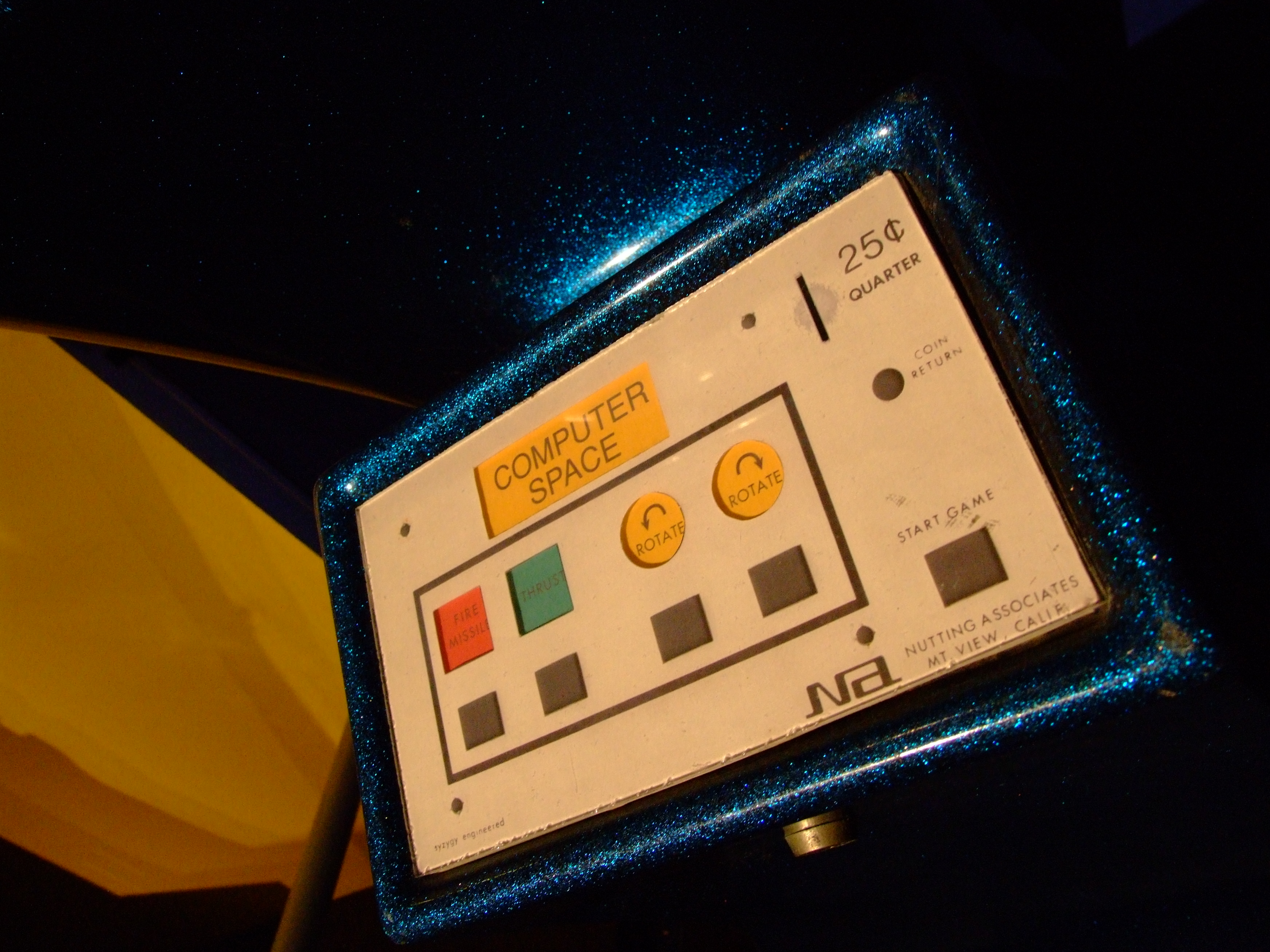 control panel from Arcade game Computer Space